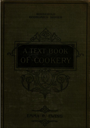 A Text-book of Cookery: For Use in Schools, By Emma Pike Ewing